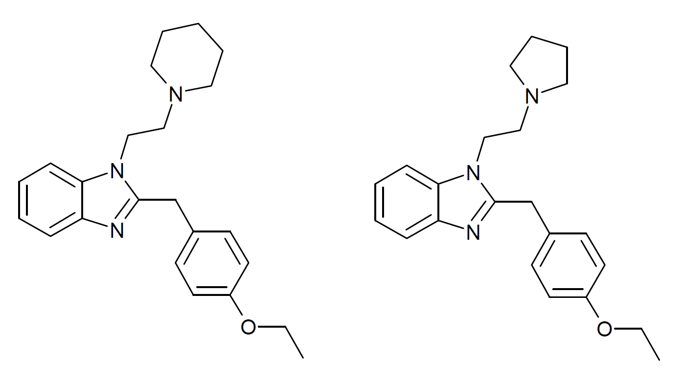 Structure of piperidine and pyrrolidine analogues of desnitroetonitazene